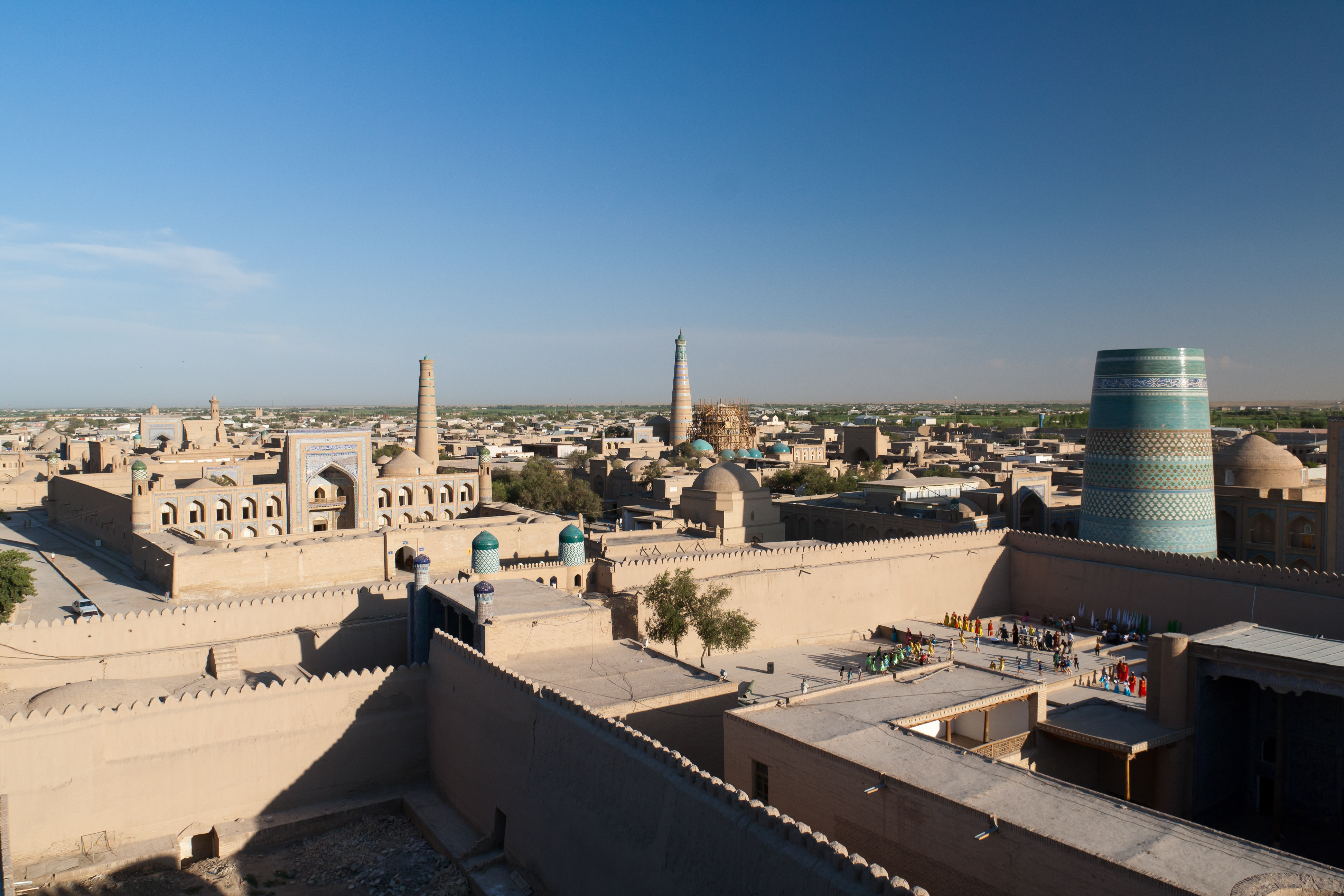 general view of Itchan Kala in Khiva, Uzbekistan